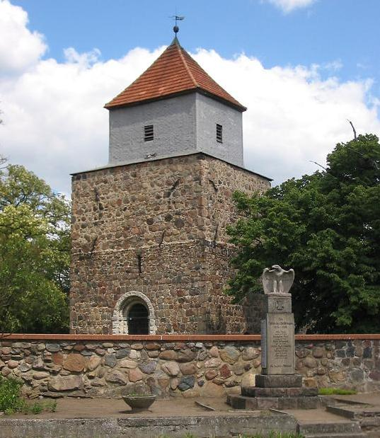 Church Lüsse (spire), built in 13th century, spire in 15th/16th century. Lüsse is an incorporated part of the town Belzig in Brandenburg, Germany.